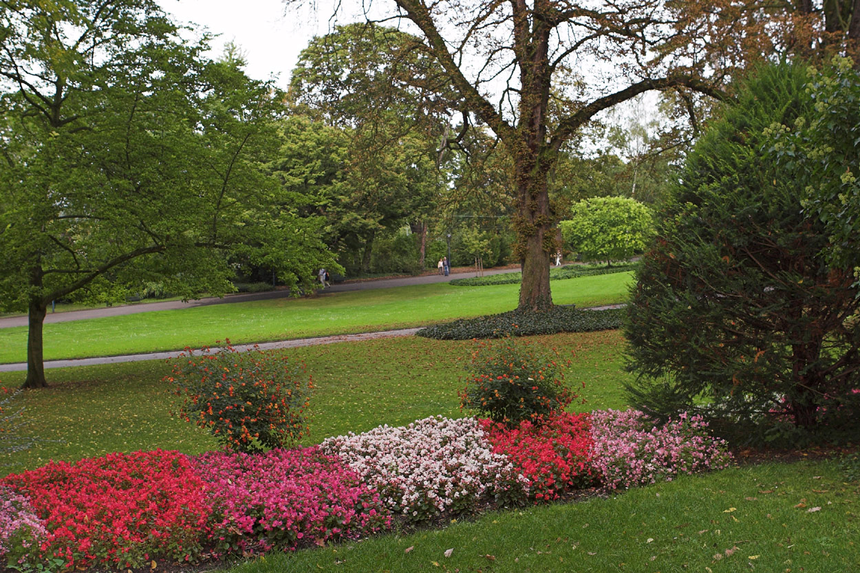 municipal park Mainz